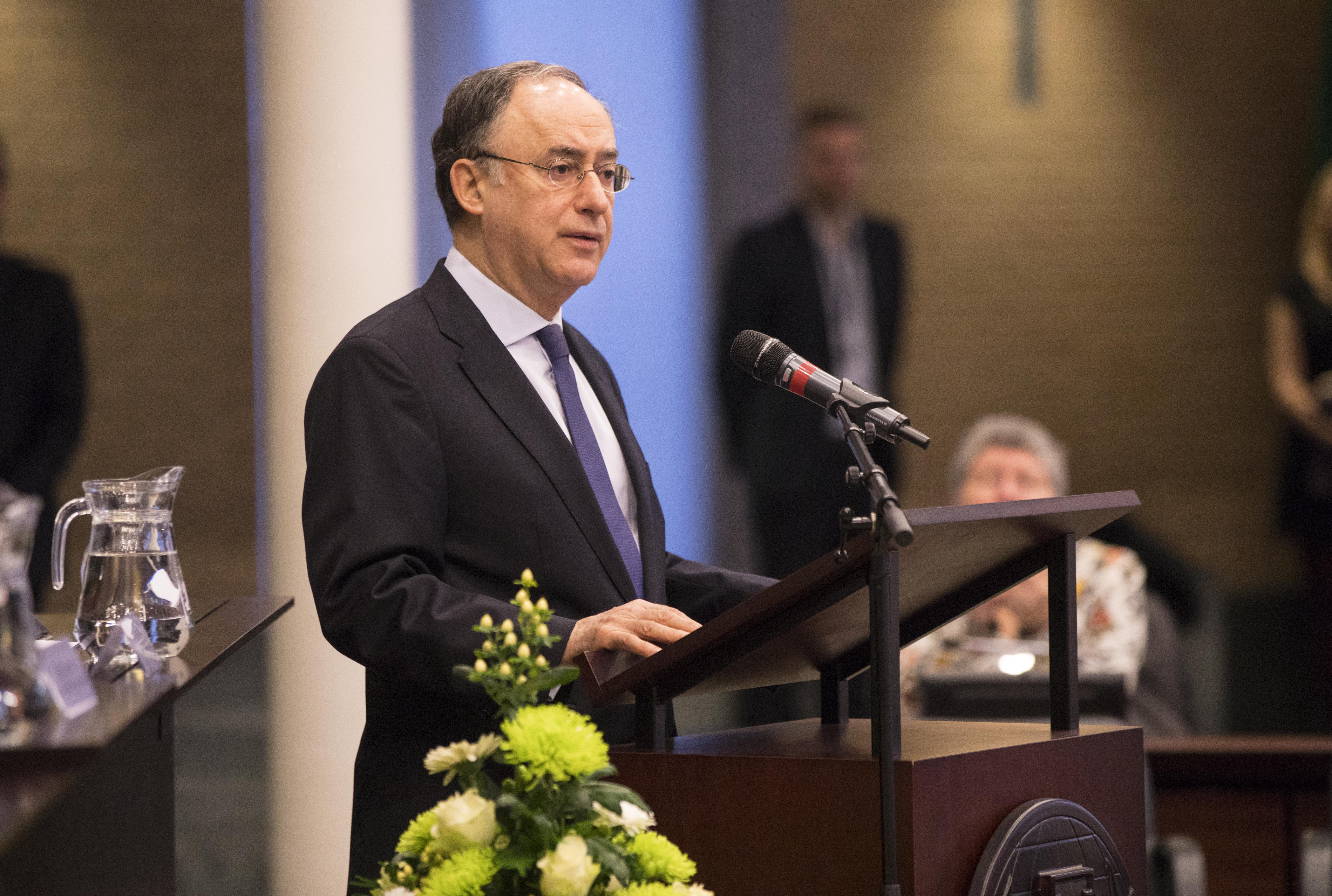 OPCW Pays Tribute to All Victims of Chemical Warfare at Day of Remembrance